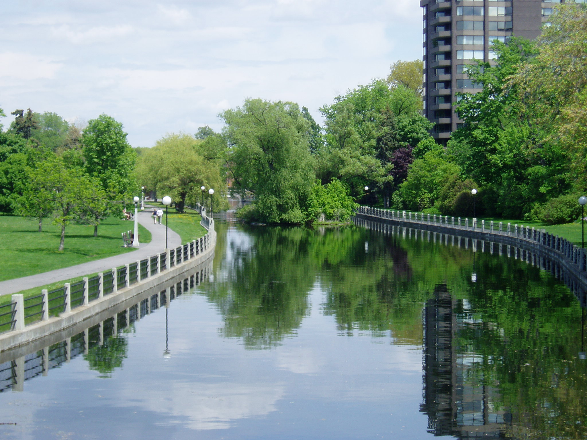 Taken by SimonP in June 2005